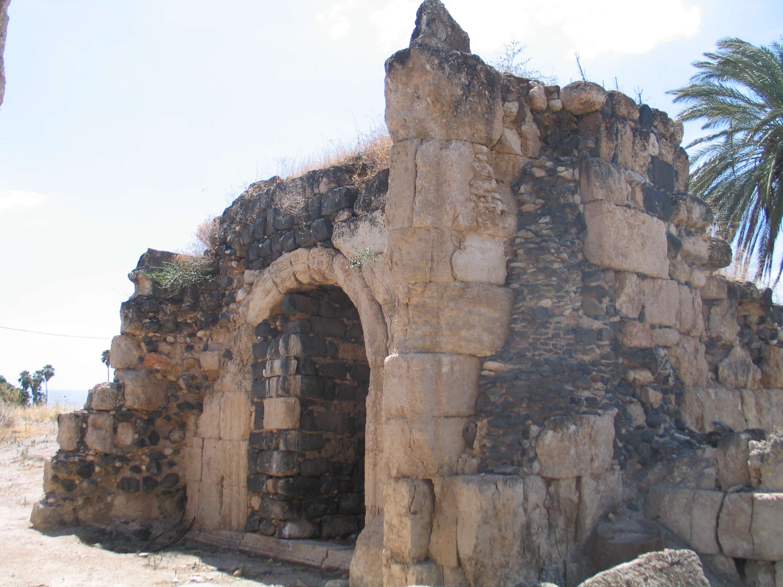 Ruins of Umayyad palace an Hurvat Minim (Khirbat al-Minya), Israel.